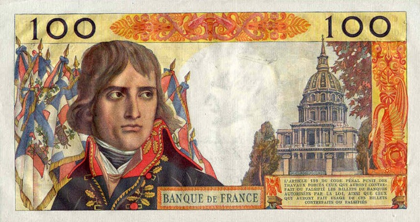 France 100 francs 1961